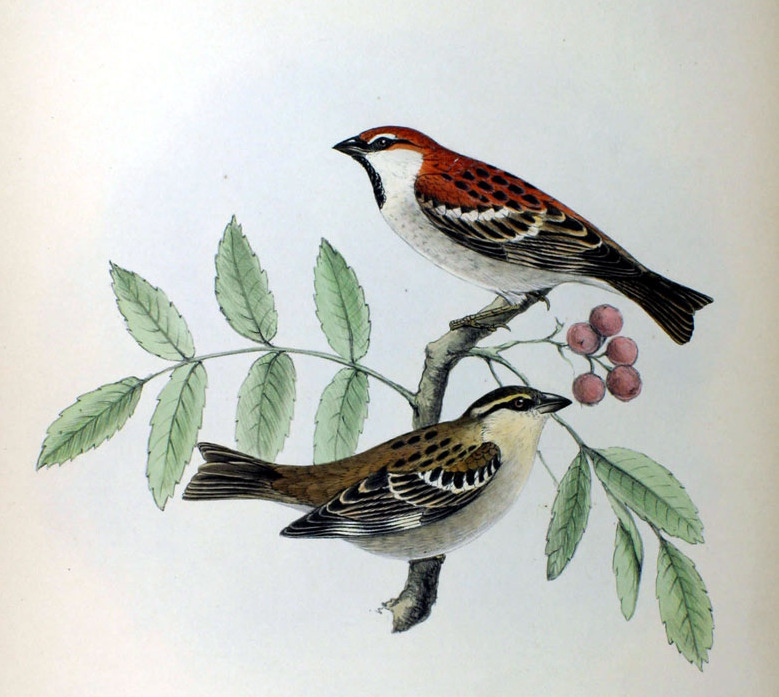 An illustration of a male (above) and a female (below) Russet Sparrow (Passer rutilans) from Fauna Japonica